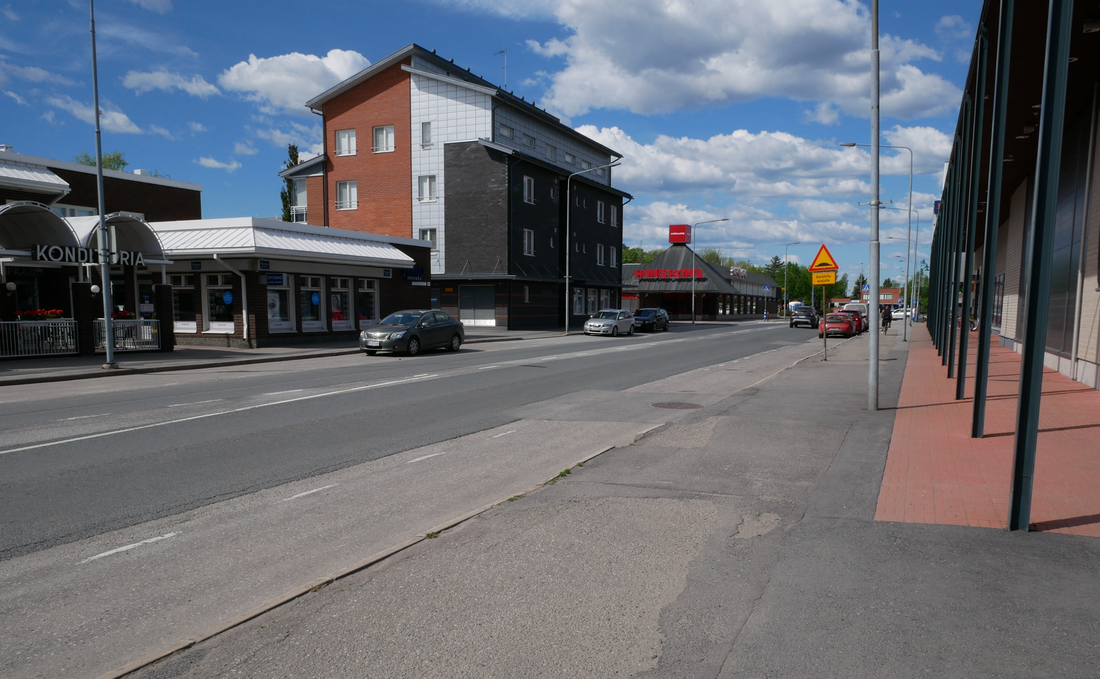 A view from Lauttakylänkatu, Huittinen, Finland.